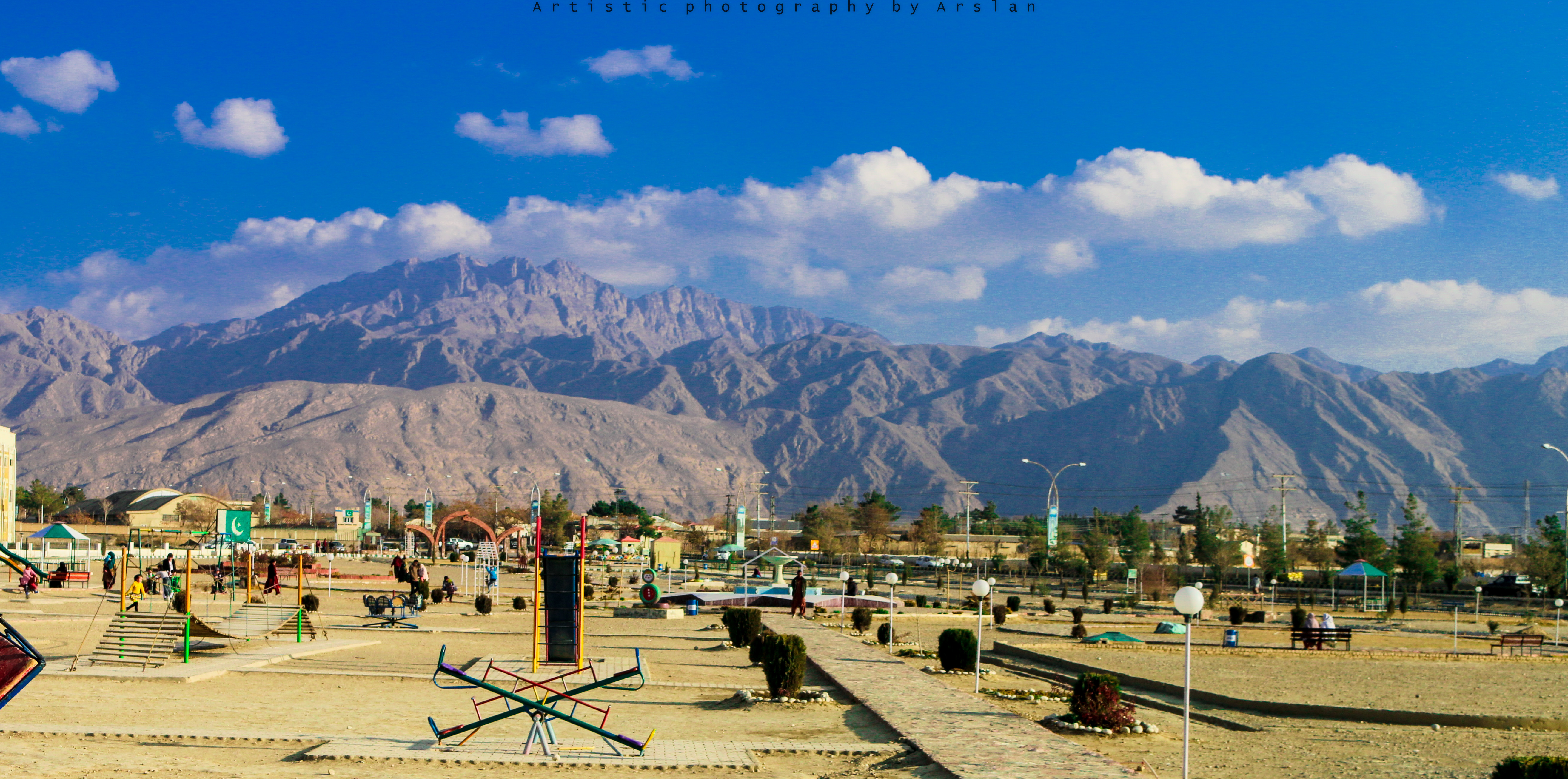 Quetta cantt